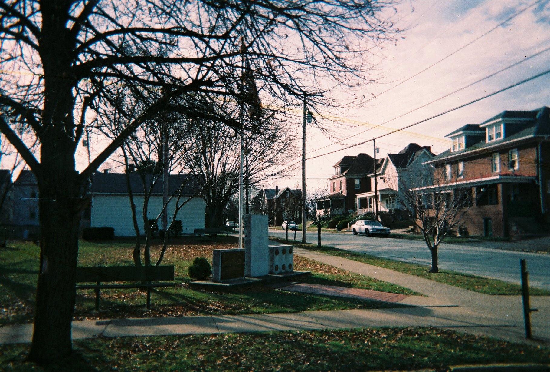 Borough of Southwest Greensburg, Pennsylvania. View of Veterans' Memorial and Borough Park. Photo taken from intersection of Brandon Street and Alexander Avenue.